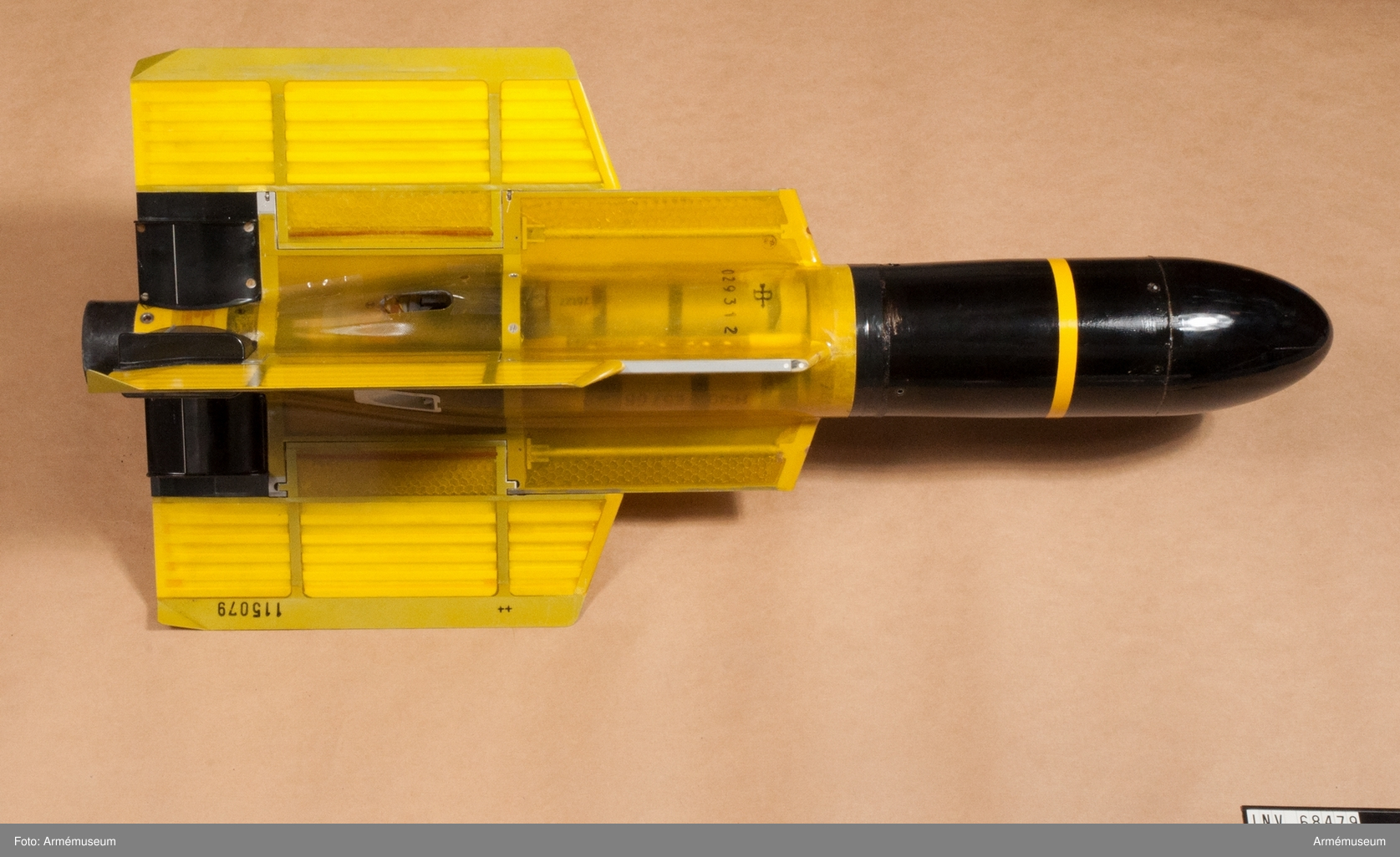 The Bantam (Bofors ANti-TAnk Missile) or Robot 53 (Rb 53) was a Swedish wire-guided anti-tank missile developed in the late 1950s. It served with the Swedish and Swiss armies from 1963 and 1967 respectively. It can either be deployed by a single man carrying a missile and control equipment or from a vehicle. It has been fitted to the Volvo L3314 and the Scottish Aviation Bulldog. In the Swiss Army, it was mounted on Steyr-Daimler-Puch Haflinger light wheeled vehicles. From the collections of the Swedish Army Museum.